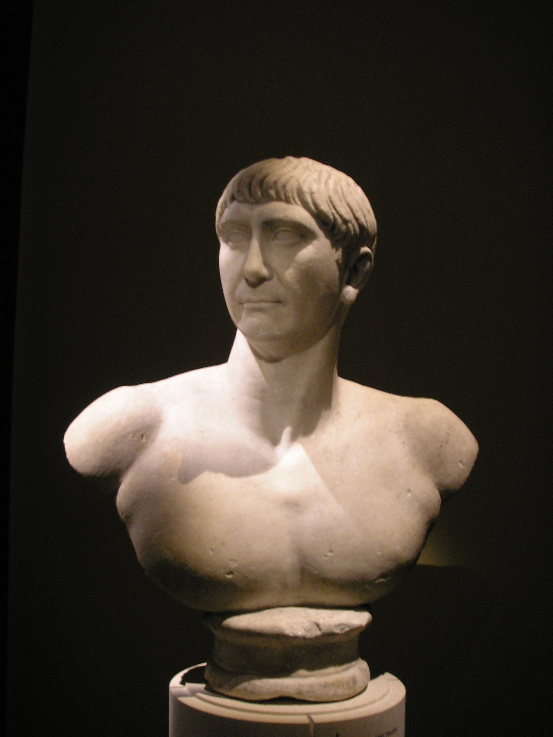 Ancient Roman bust of Emperor Traian, in the Collection of Greek and Roman Antiquities in the Kunsthistorisches Museum, Vienna.